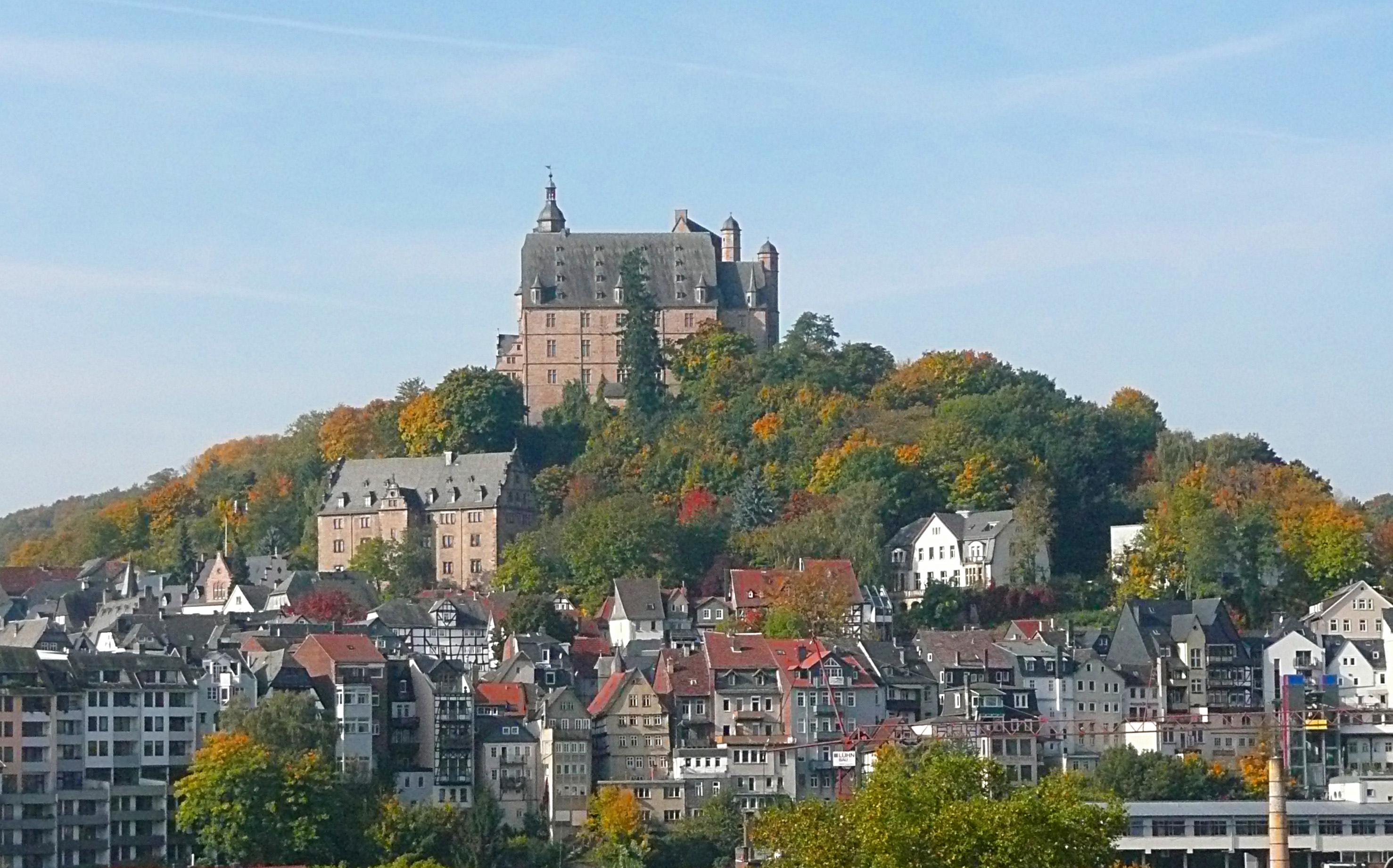 Marburg Oberstadt with city castle from east